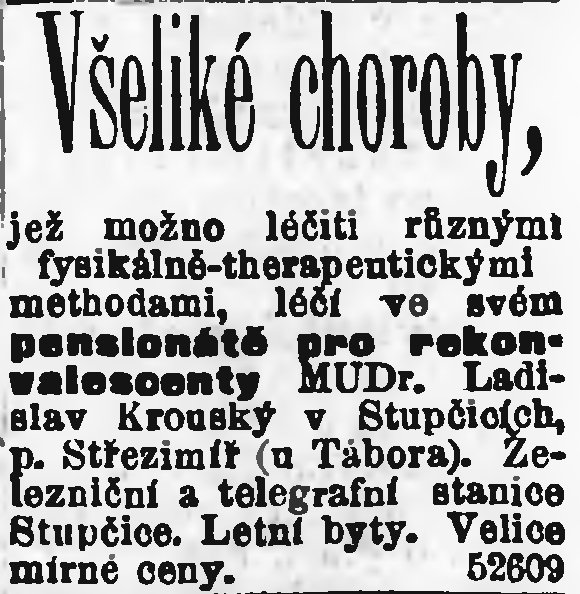 Advertisement of a spa in Stupčice (present-day Czech Republic)